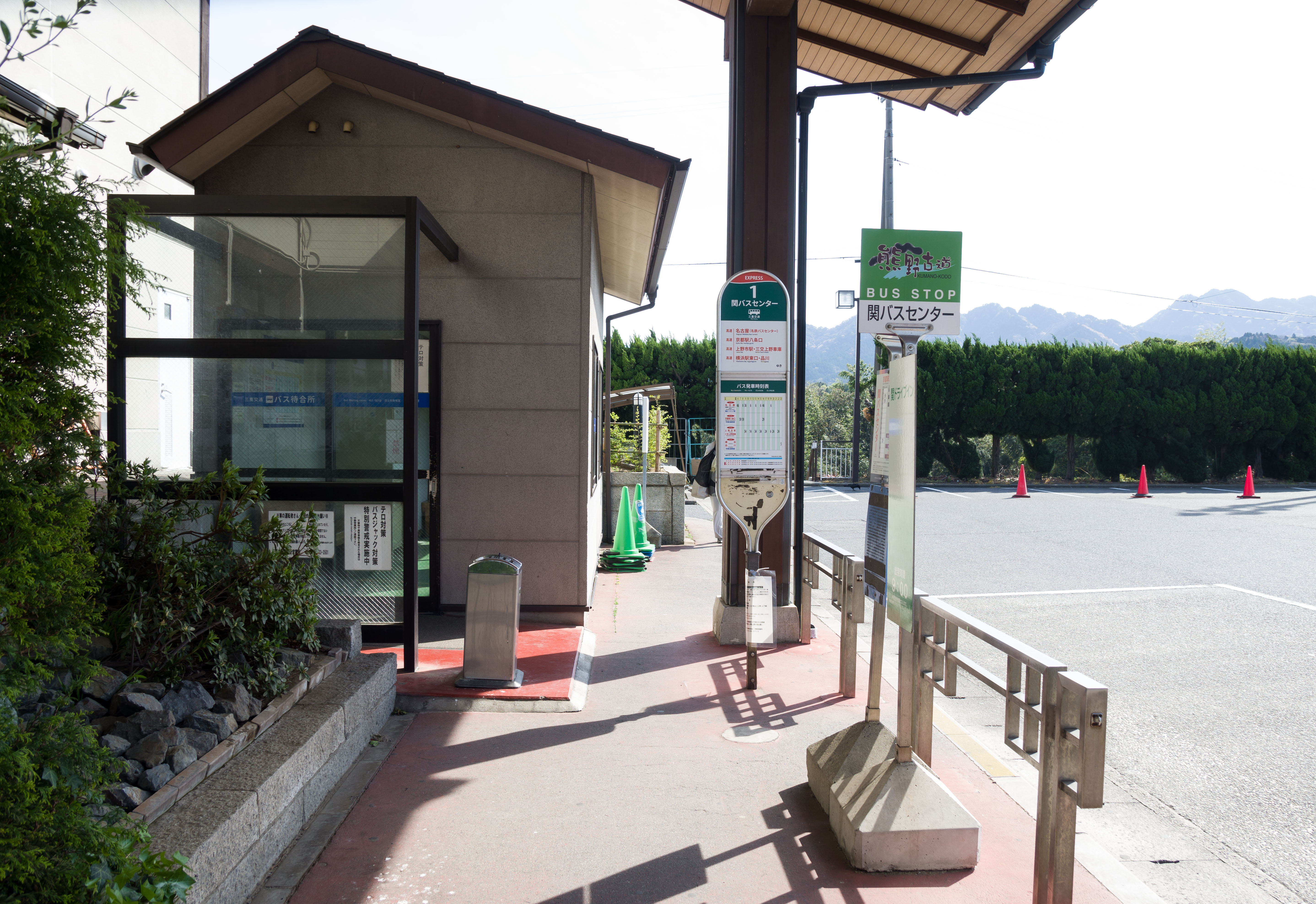 Seki Bus Center in Kameyama, Mie, Japan.